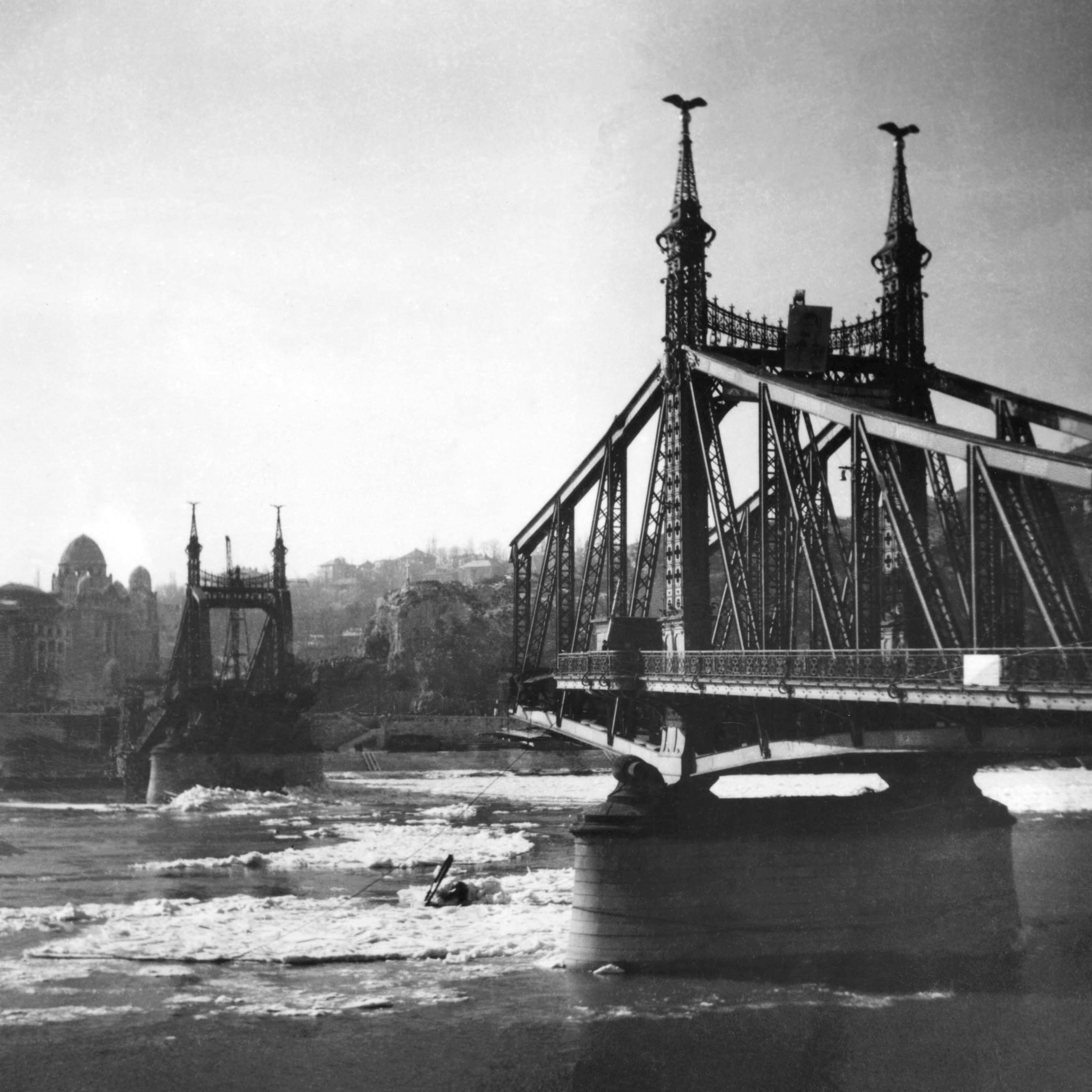 The Liberty Bridge blown up image of the 1946th on 3 February.